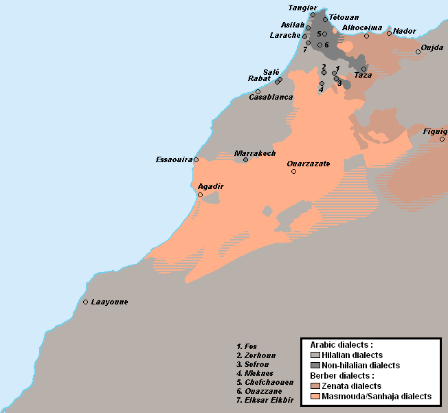 Linguistic map of Morocco, map drawn acc. to: P. Behnstedt's La frontera entre el bereber y el árabe en el Rif & Materialien für einen Dialektatlas von Nordost-Marokko, for the Berber speaking areas of Northern Morocco ; C. Múrcia Sanchez, La llengua amaziga a l'antiguitat a partir de les fonts gregues i llatines (details in vol.3 (annexes), p.18) J. Vignet-Zunz's map of Northern Morocco (see also Murcia Sanchez, vol.2, p.818) ; M. Lafkioui's study on Berber speaking areas of Northern Morocco (see Murcia Sanchez, vol.2, p.875) ; H. Ramou's map, used by B. Elbarkani in: Le choix de la graphie tifinaghe pour enseigner, apprendre l'amazighe au Maroc : conditions, représentations et pratiques (annexes partie 1, p.2) ; S. Chaker's article on Central Atlas Tamazight, (INALCO) ; M. Abouzaid, Politique linguistique éducative à l’égard de l’amazighe (berbère) au Maroc (see map, p.40) ; G. Colin's map ; Stroomer & Kossmann's map (p.1) ; A. Hachimi's thesis (see Boukous' map, "p.0", PDF's p.15).